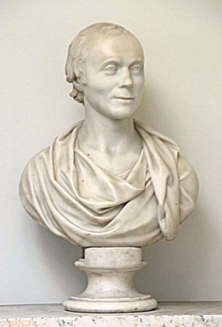 This marble bust was based upon a death mask that Joseph Nollekens took. Spencer Perceval is the only British Prime Minister to have been assassinated.